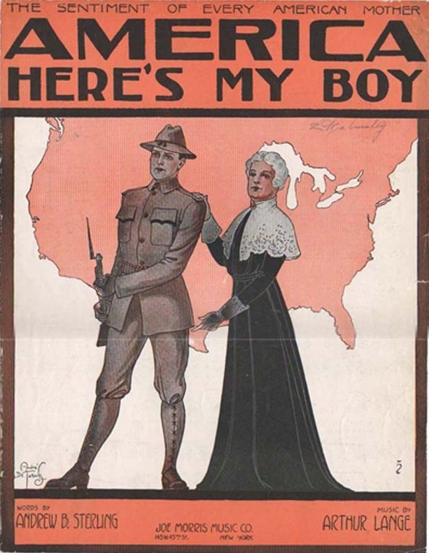 Sheet music cover for "America Here's My Boy", words by Andrew B. Sterling, music by Arthur Lange. Store Web page states: "A 10 1/2 x 13 1/2 inch Sheet Music, America Here's My Boy, The Sentiment of Every American Mother,words by Andrew B. Sterling, music by Arthur Lange, Joe Morris Music Co., artist signed, copyright 1917. Mother with Soldier on cover. There are 3 pages including front cover."